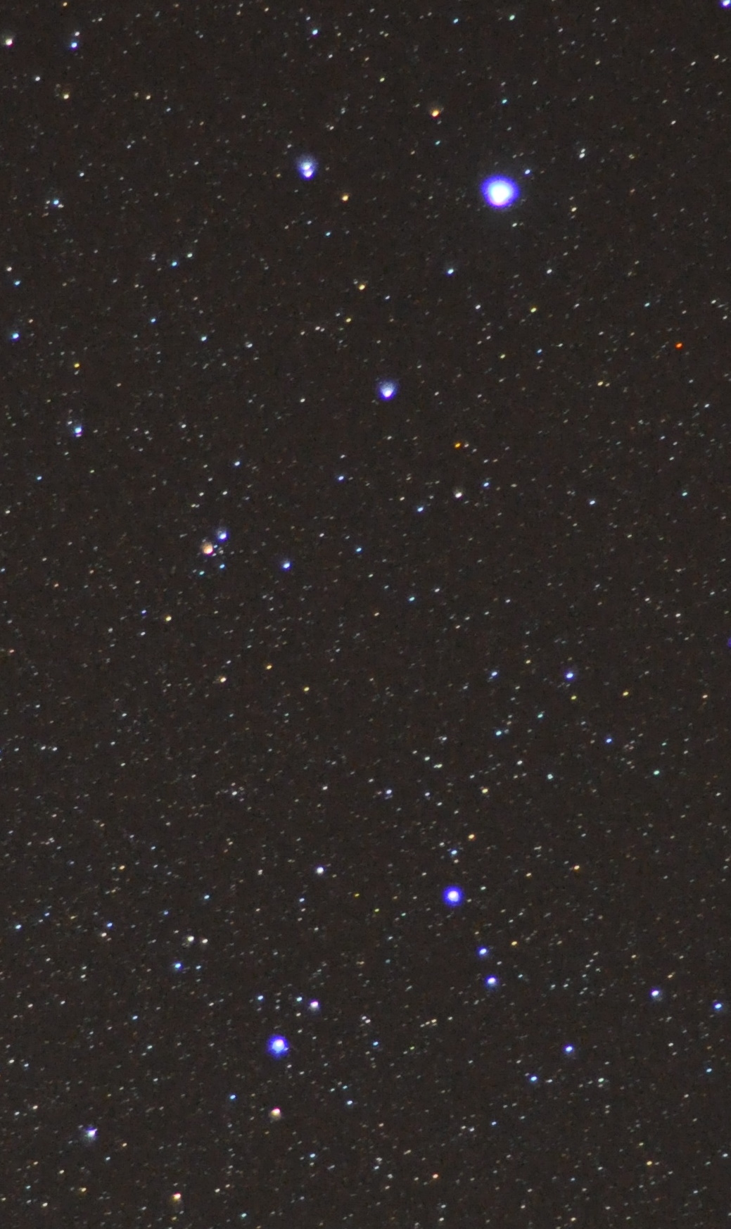 The principal stars of the constellation Lyra, as seen from the northern hemisphere, in a long exposure.